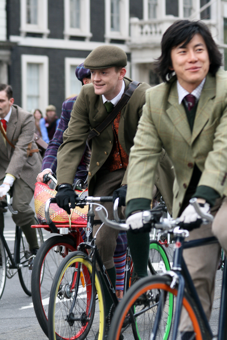 Tweed Run on 24/01/2009 in London